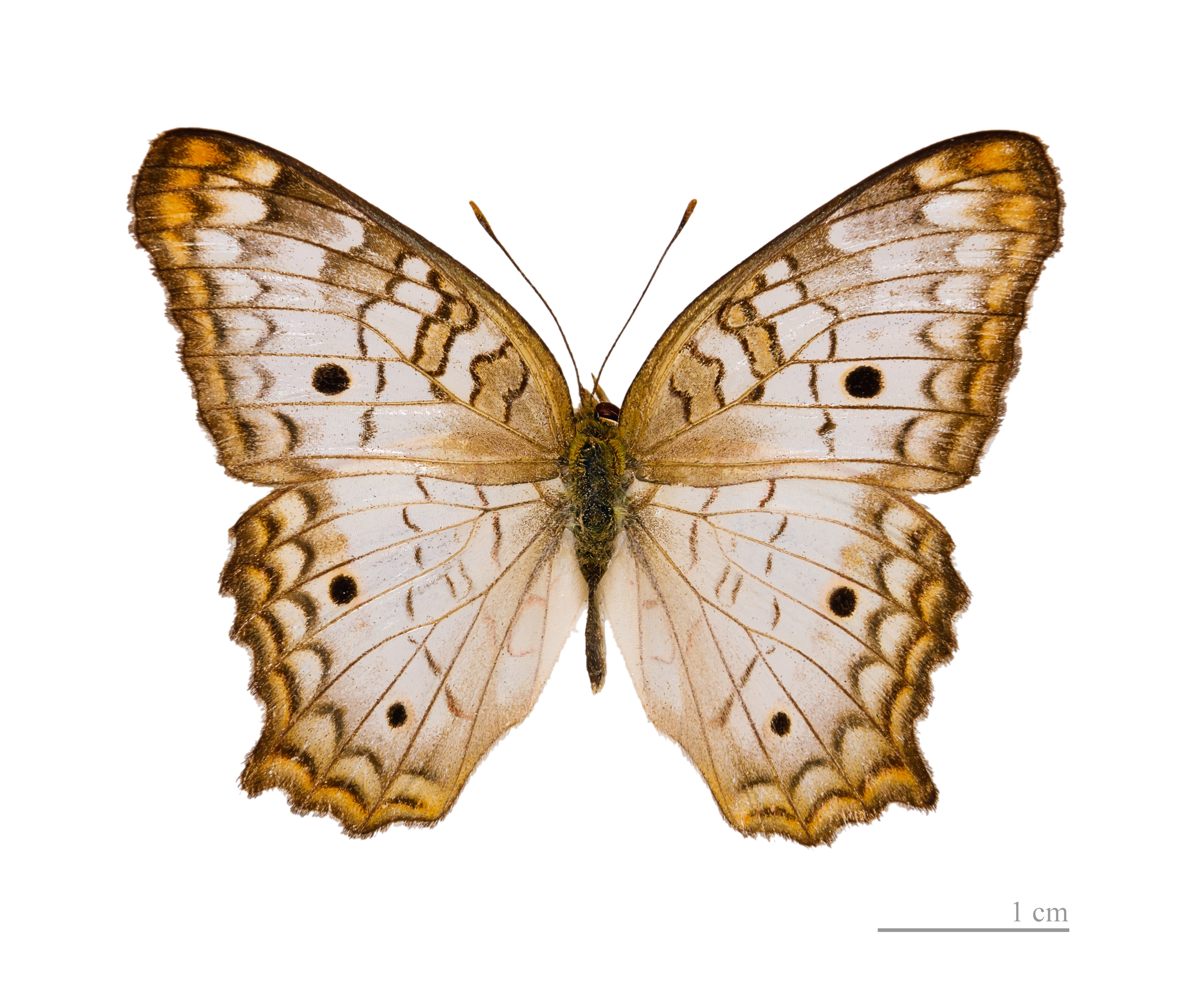 White Peacock ♂ - Dorsal side Locality : Cacao, Crique Baguot, French Guiana.